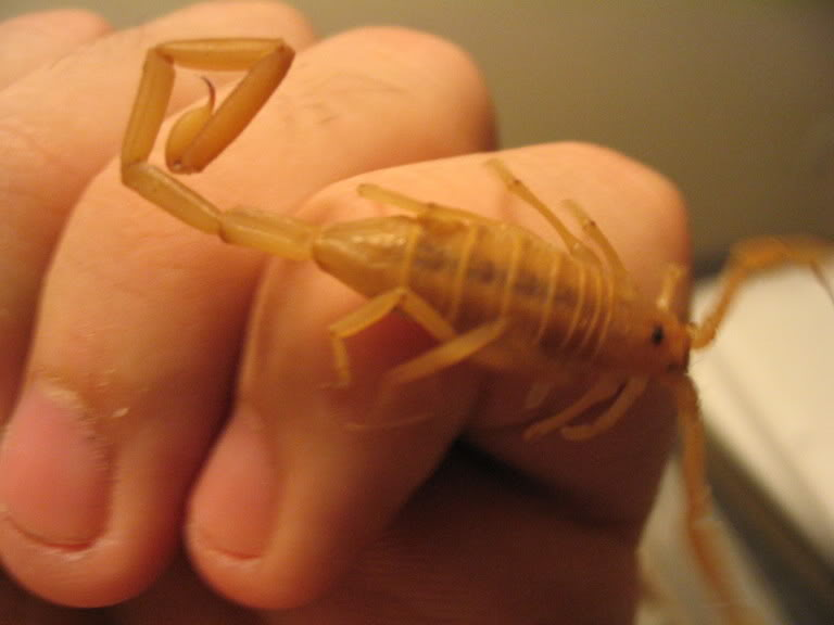 I was actually looking for an old photo of a black widow on my arm, for my dad, but I couldn't find it. Here's a photo of a male Arizona bark scorpion, Centruroides sculpturatus, instead. His name was Az. Formerly Centruroides exilicauda, and before that it was Centruroides sculpturatus, it's now gone back to the original C. sculpturatus. The reason? The Baja California variety turned out to be a distinct new species, so it kept the newer C. exilicauda name and the original Arizona bark scorpion went back to the original Centruroides sculpturatus name.